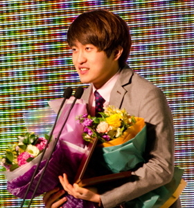 Lee Young-Ho at 2012 Korea e-Sports Awards, on March 2, 2013